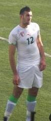 Essaïd Belkalem during a match against Chad